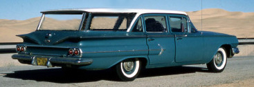 1960 Chevrolet 4-Door Parkwood Station Wagon, turquoise, rear 1/4 view